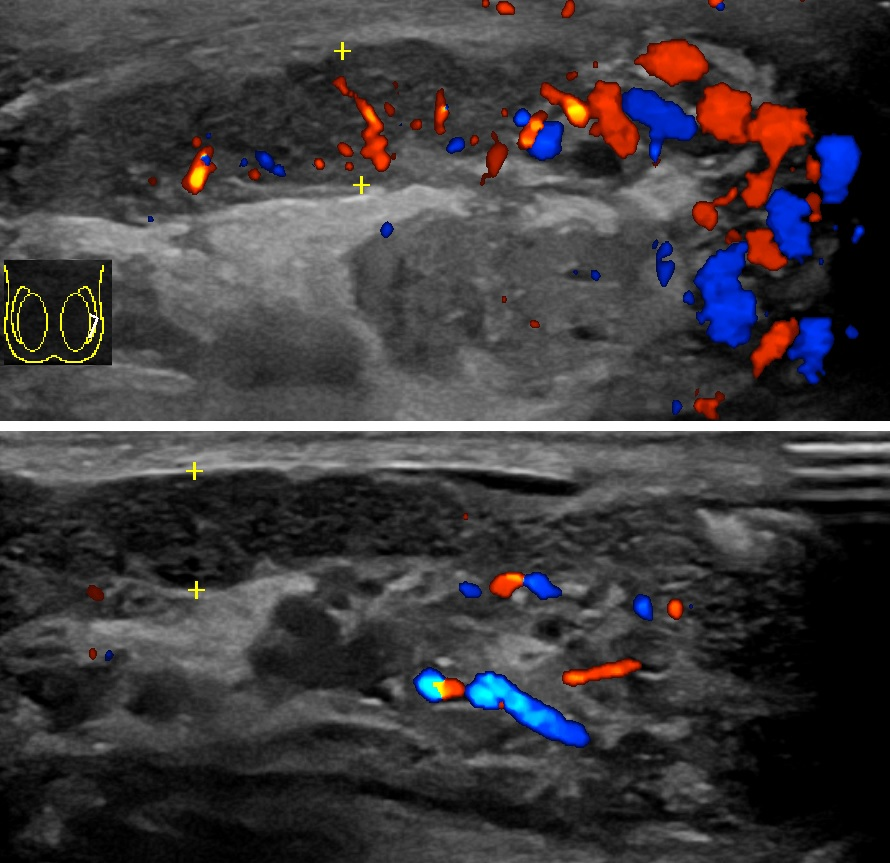 Doppler ultrasound of the scrotum of a 70 year old man with left-sided pain in the region, as well as CRP elevation. It shows epididymitis by a substantial increase in blood flow in the left epididymis (top image), while it is normal in the right (bottom image). The thickness of the epididymis (between yellow crosses) is not significantly increased (7 mm at top, 6 mm at bottom).